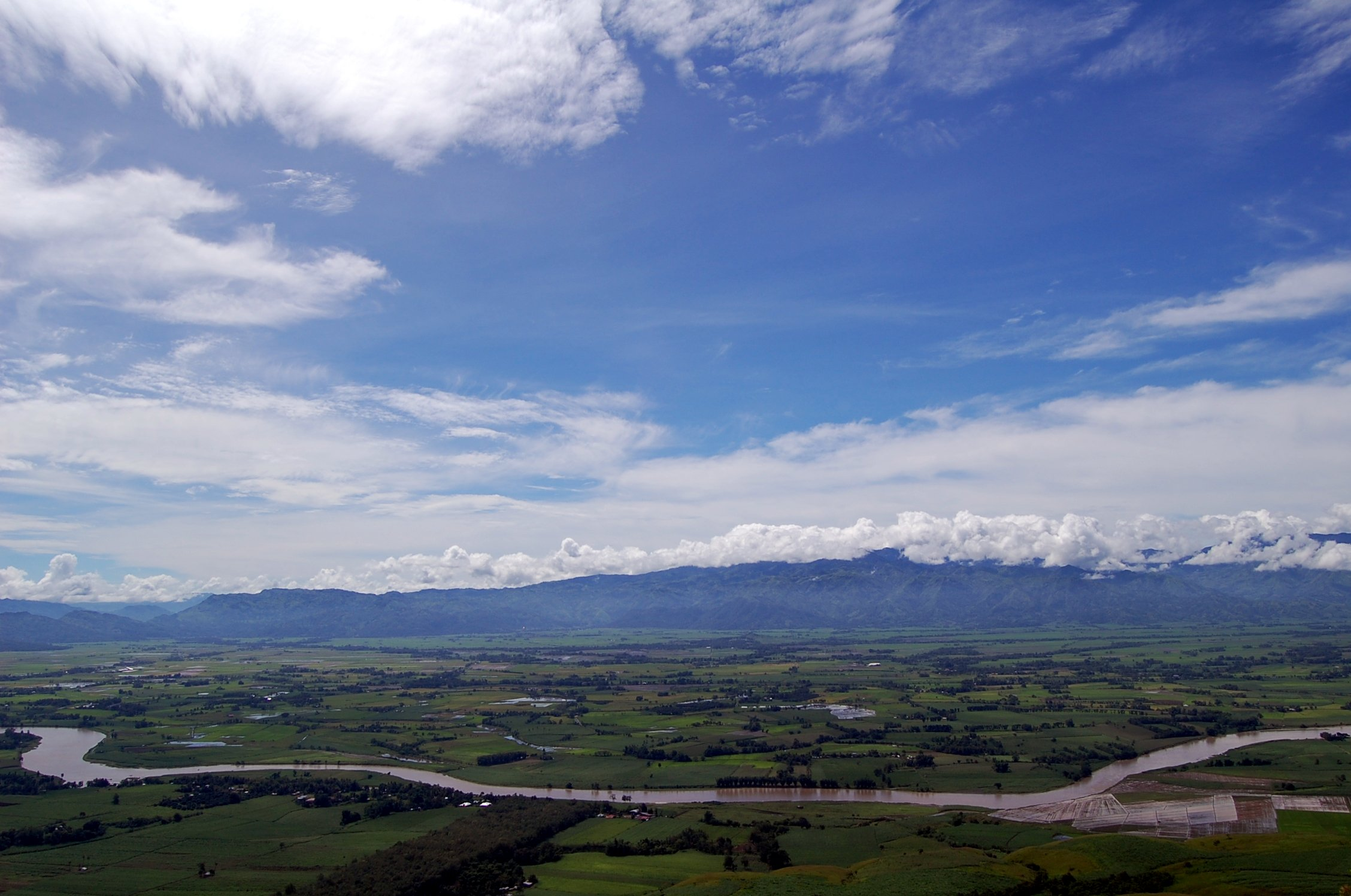 The Pulangi River, winding thru the Maapag Plain. Seen from Mount Musuan between the boundaries of Valencia City and Maramag in Bukidnon province, Philippines.